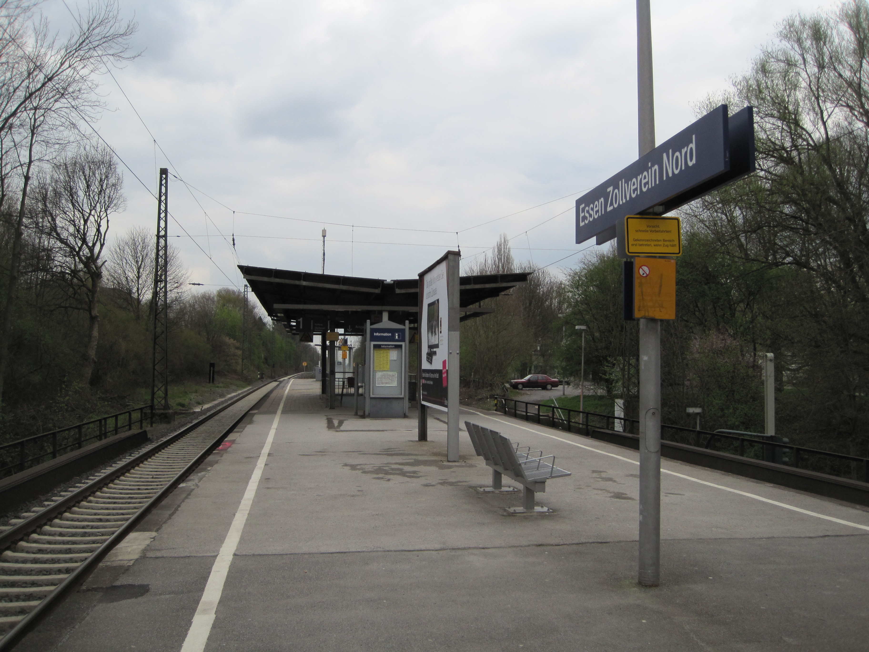 Zollverein Nord station, Essen, Germany check usage